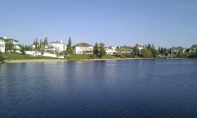 View of the artificial lake in Twin Brooks in Edmonton.